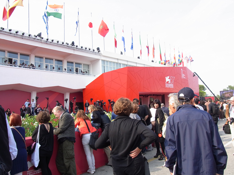 The Venice Film Festival on the island of the Lido.